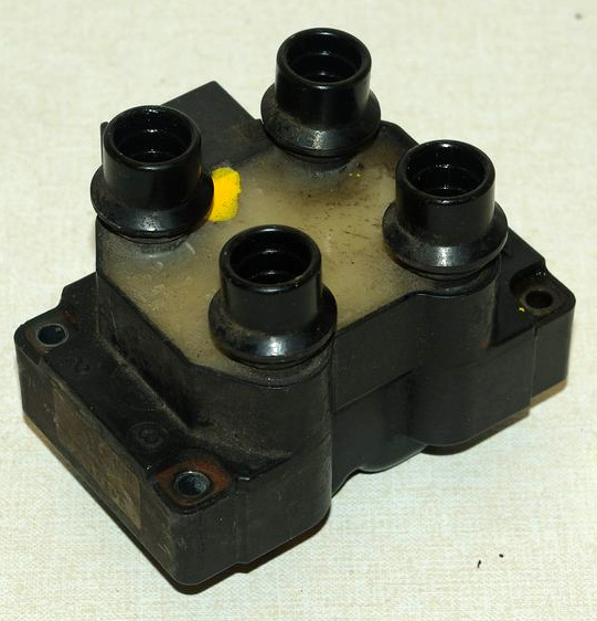 Ford twin coils